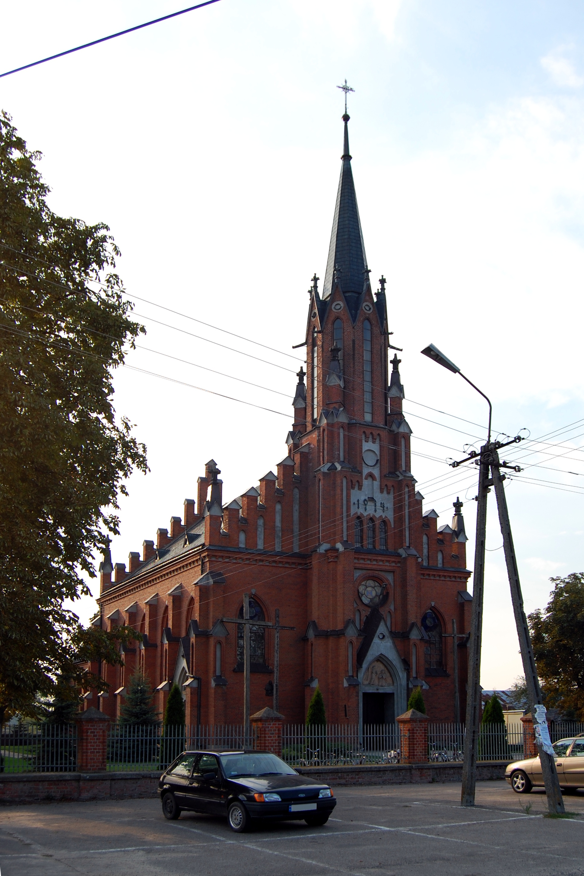 Church in Radoryż Kościelny, Lublin Voivodeship, Poland. Built in 1914.